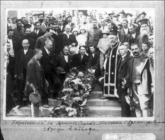 Taskata Serski, voivoda of IMARO, laid in the grave